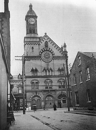 Yorkville Town Hall, on the west side Yonge Street, looking west on Collier Street. Toronto, Canada.